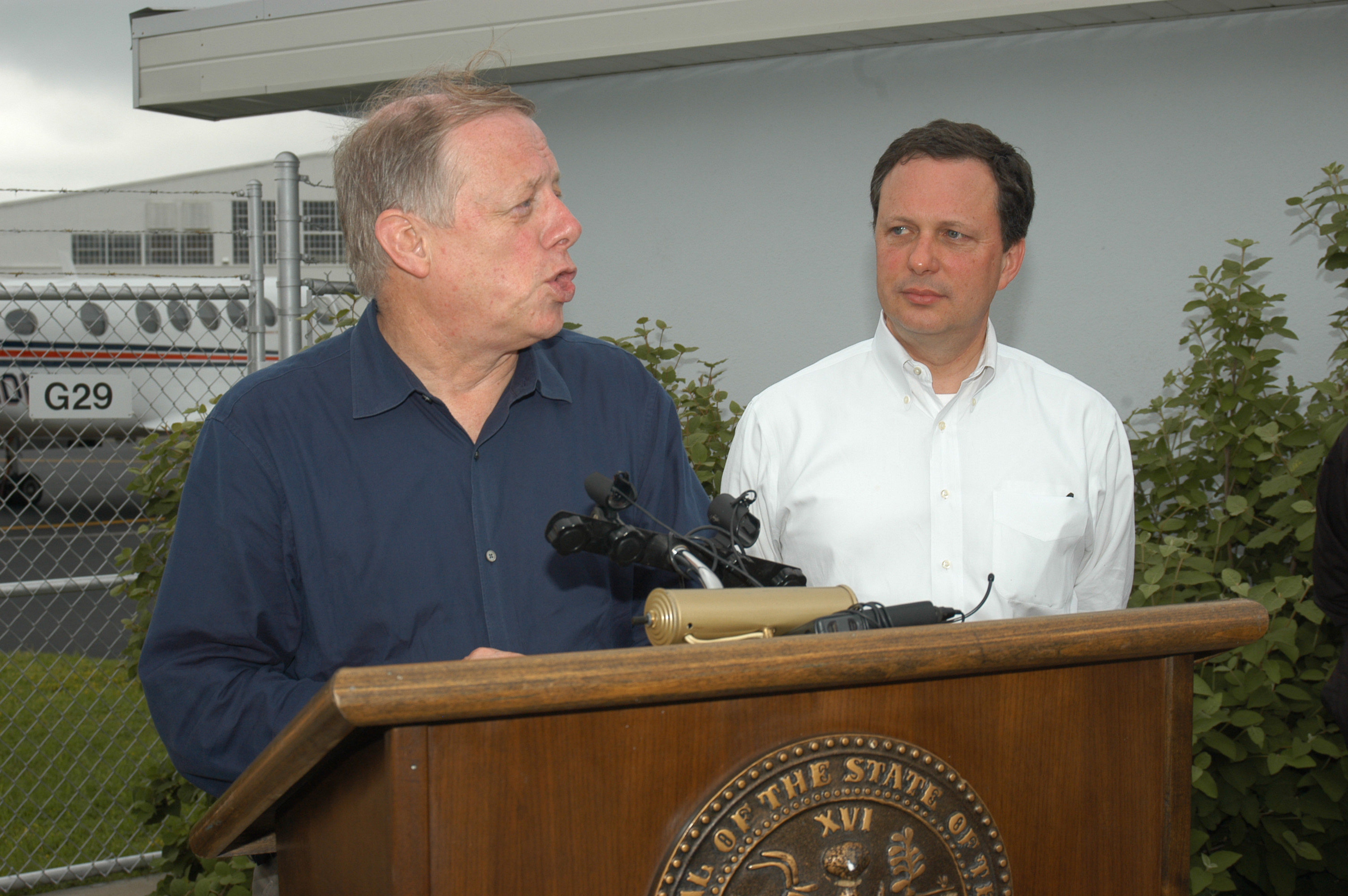 Nashville, TN, May 6, 2003 -- Under Secretary Mike Brown listens as Governor Phil Bredesen speaks with the media in Nashville,Tennessee about the tornadoes that hit in the state. Photo by Mark Wolfe/FEMA News Photo